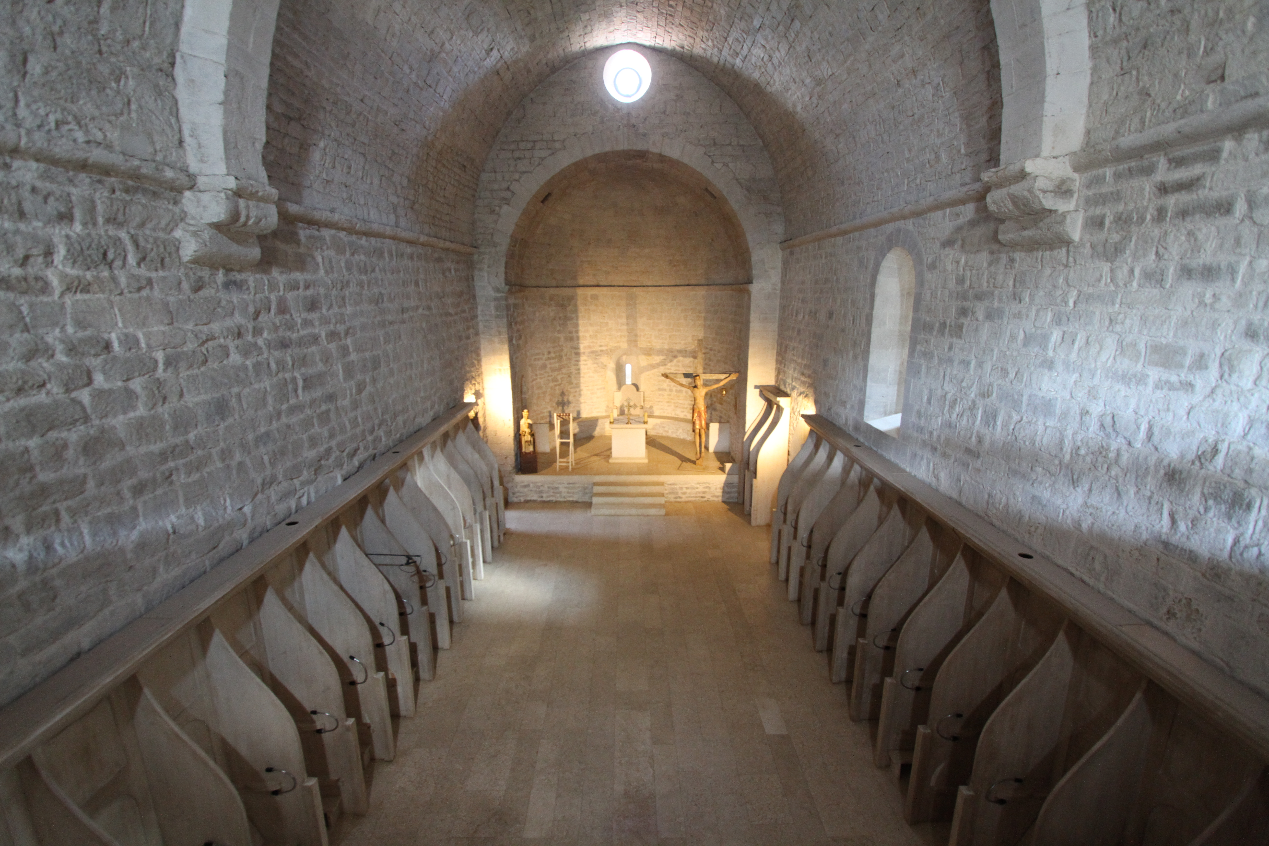 Monastry in Southern France